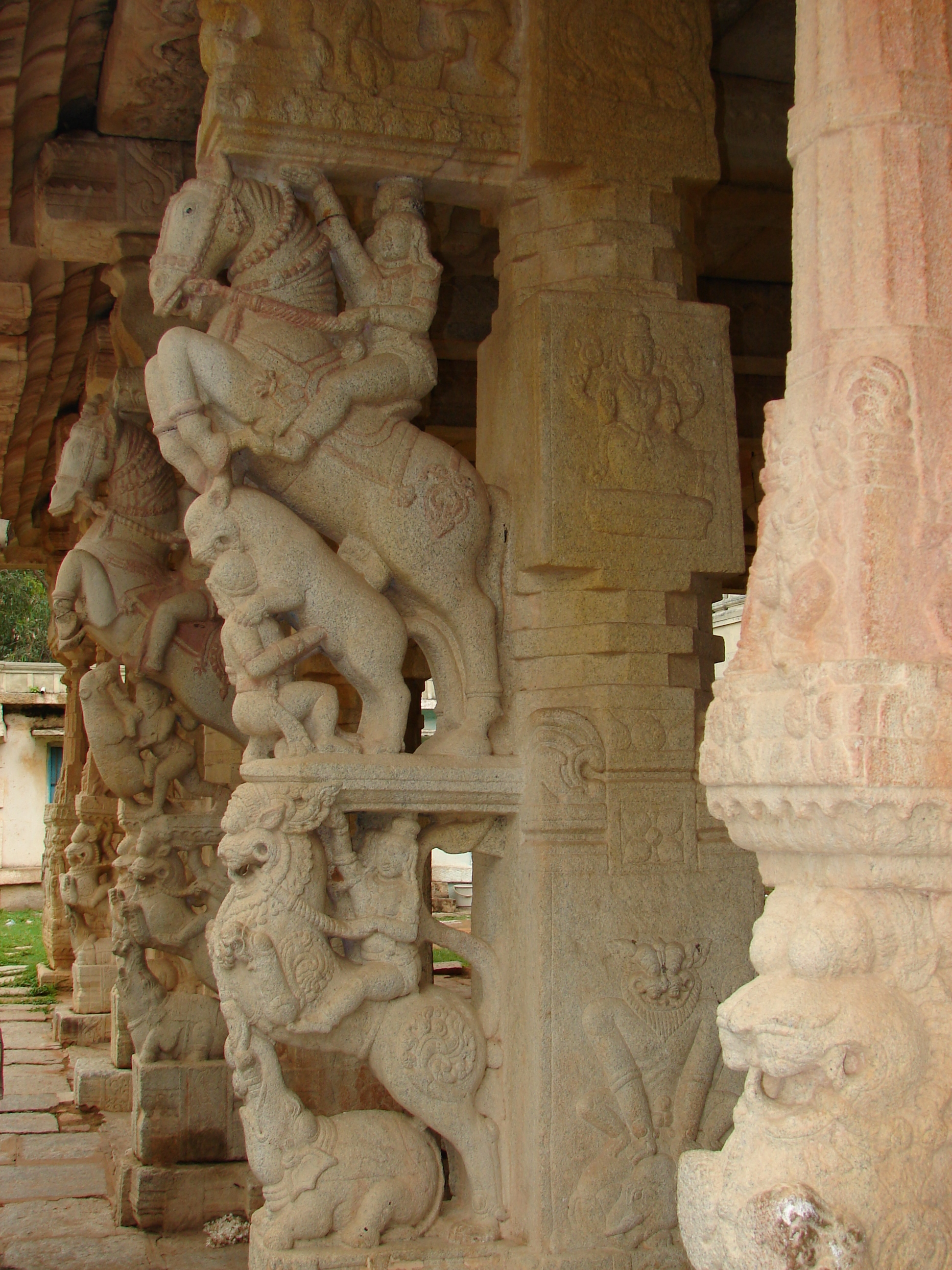 This photograph was taken by me at the Ranganatha temple in Rangasthala, Chikkaballapur district, Karnataka state, India. The construction of the temple is attributed to the 14th-16th century Vijayanagara Empire.